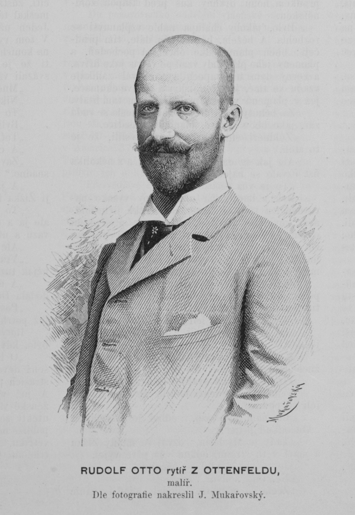 Portrait of Rudolf Otto von Ottenfeld (1856-1913), German painter.